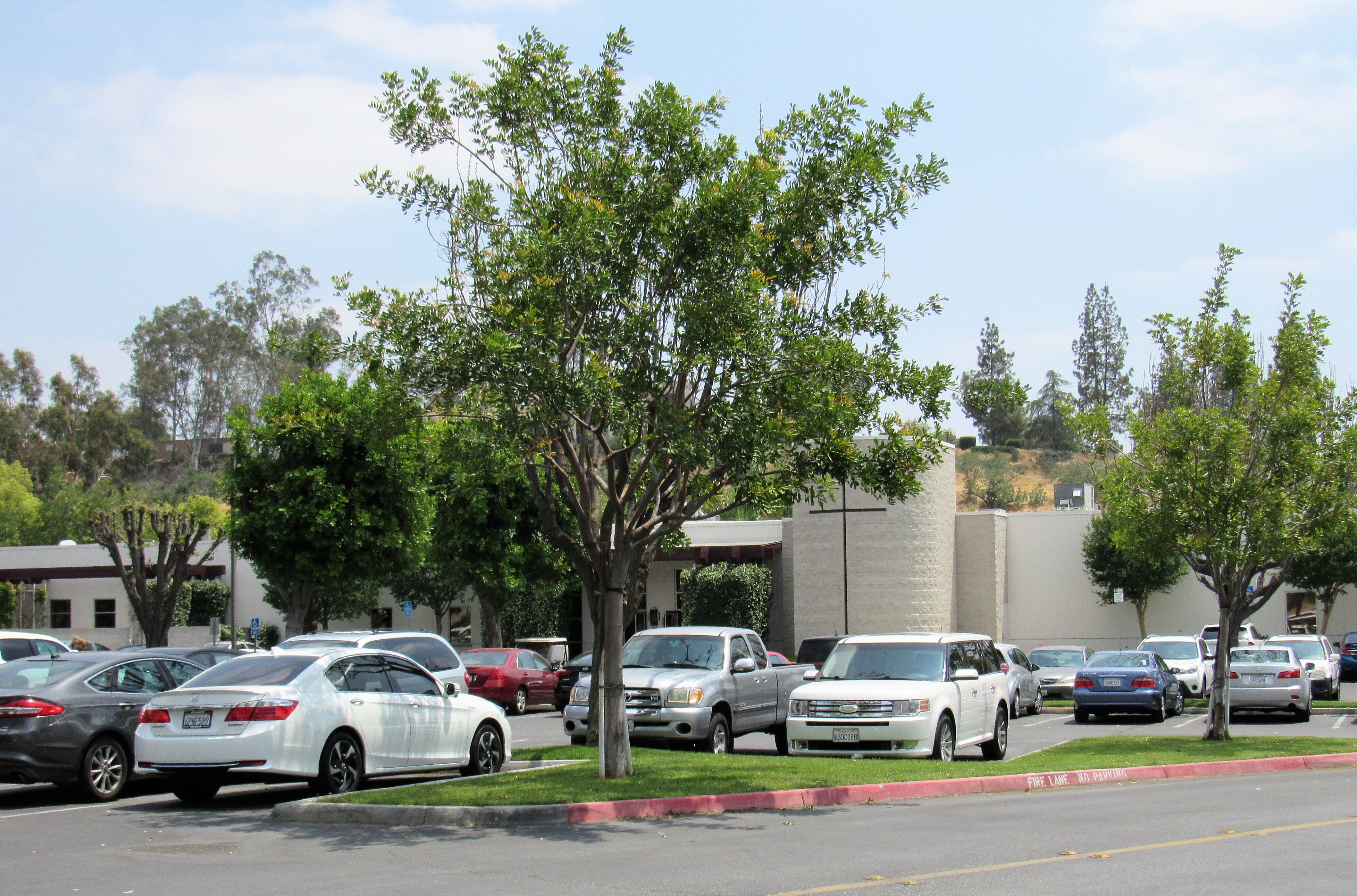 The Pastoral Center for the Catholic Diocese of San Bernardino.